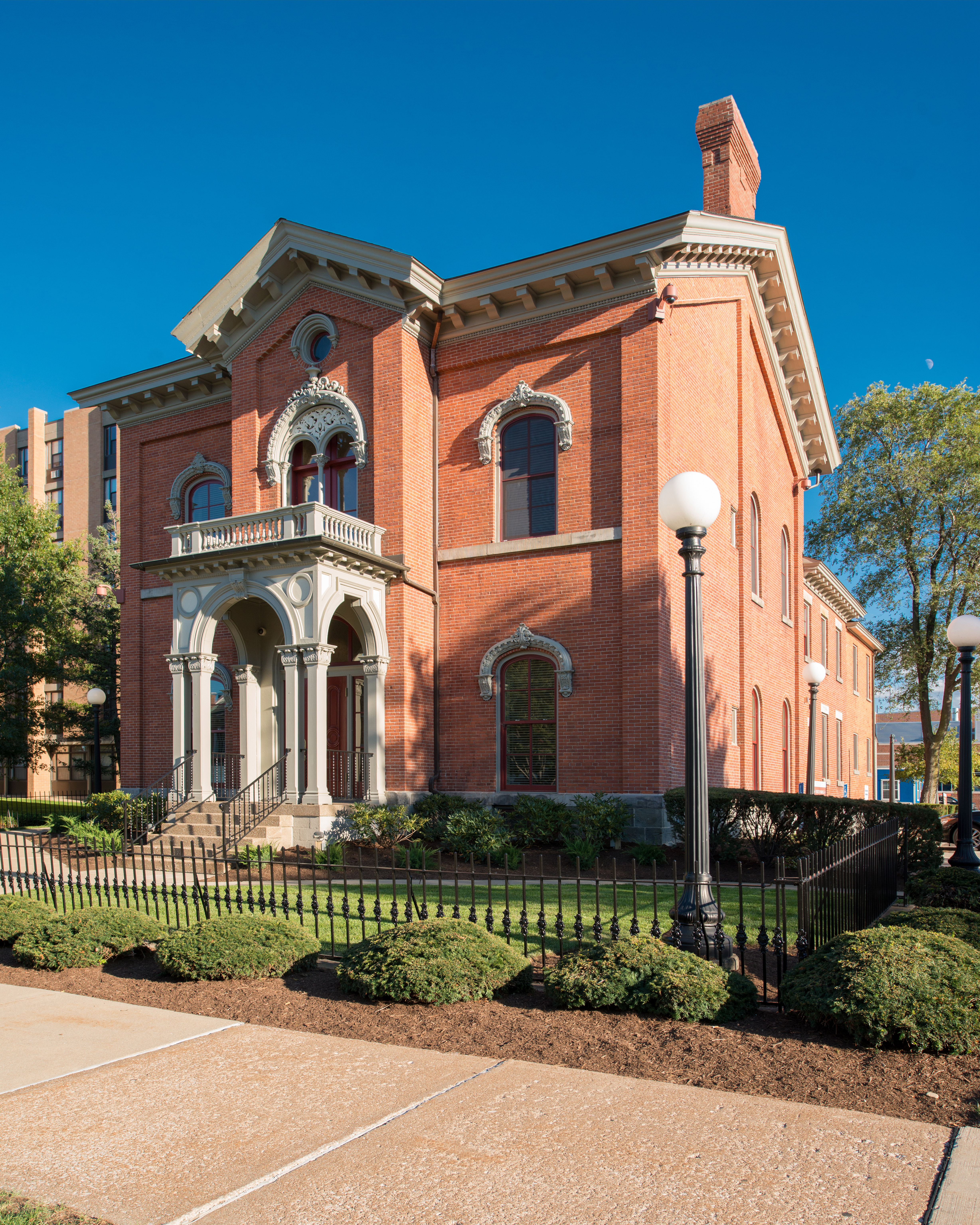 Gideon Ball House